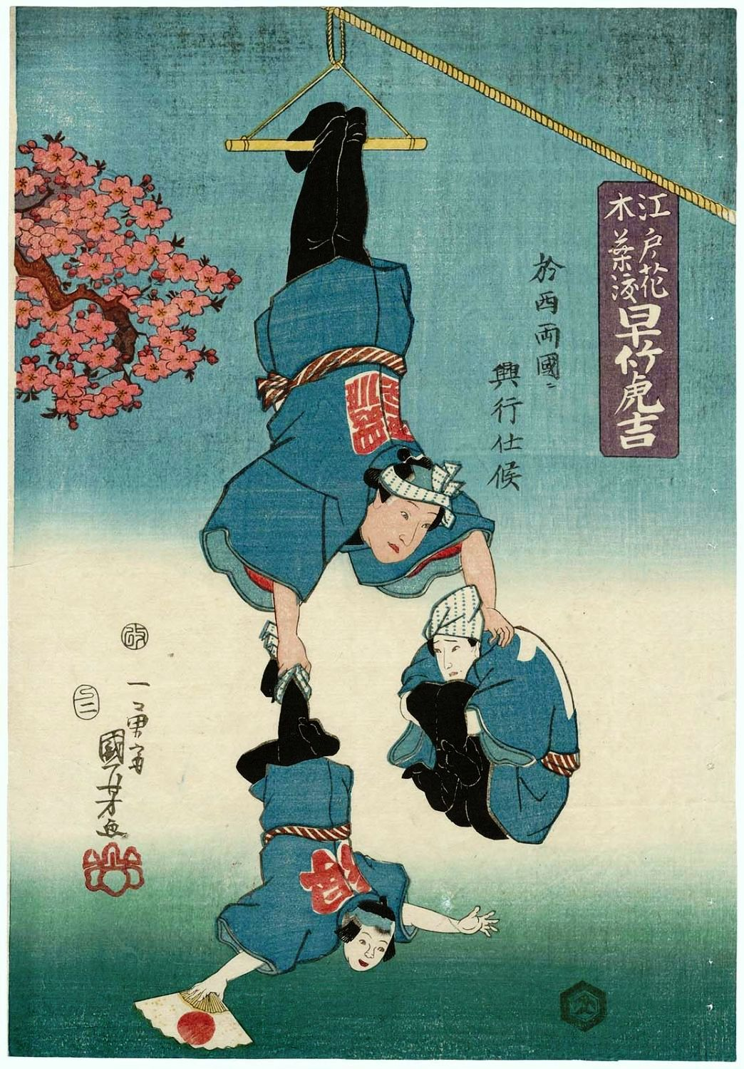 Japanese Acrobat performer, Hayatake Torakichi. Ukiyoe by Utagawa Kuniyoshi, 1857